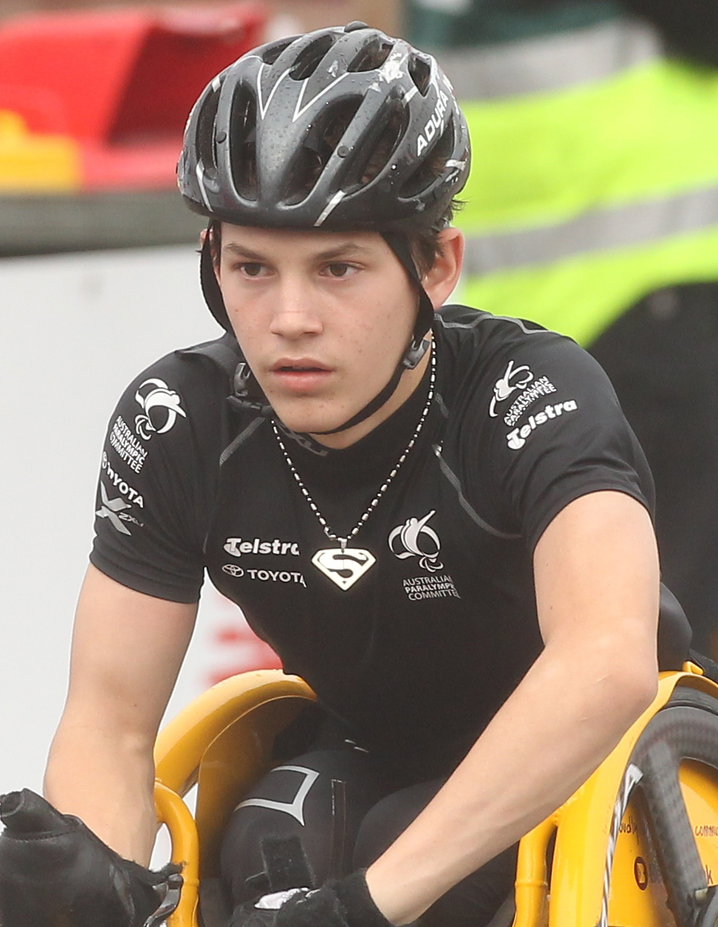 Australian wheelchair racer Rheed McCracken, Australian Paralympic athlete. Action photo circa 2011